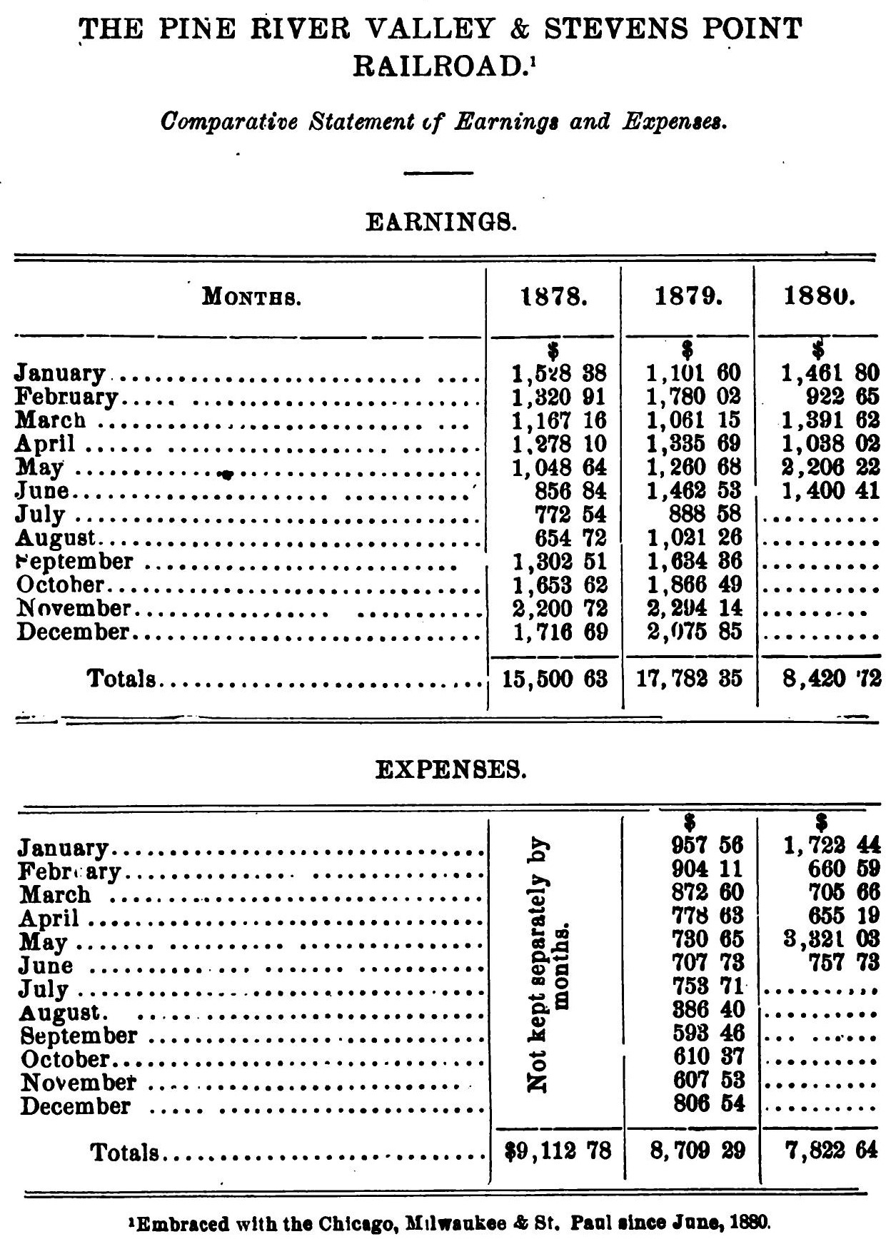 Pine River Valley & Stevens Point Railway. Annual Report of the Railroad Commissioners of the State of Wisconsin by Wisconsin Railroad Commissioners' Dept (1882)